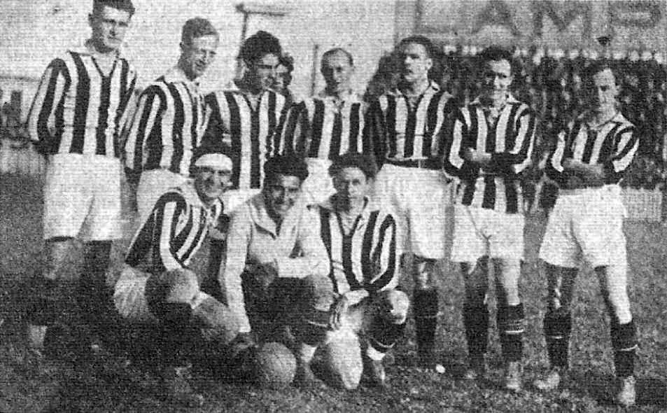 A line-up of F.B.C. Juventus in the 1924–25 season, posing inside the Juventus Ground in Turin, Italy.